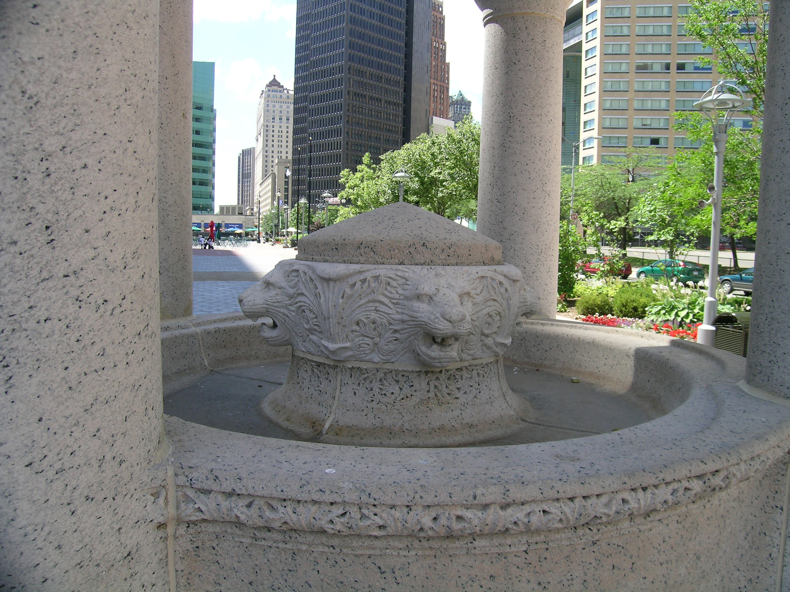 Lions on the Bagley Memorial Fountain, Detroit MI